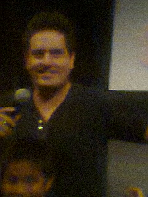 Galo Recalde at the premiere of Rapidos y Curiosos, from series Capitán Expertus, in the MAAC Cine.